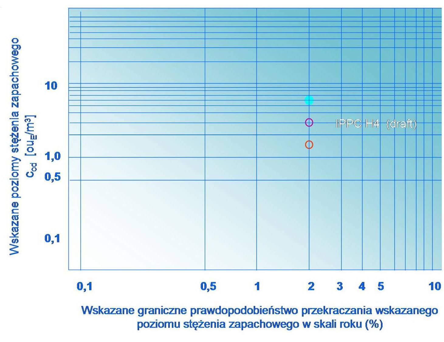 Odour Air Standards (IPPC H4_A)